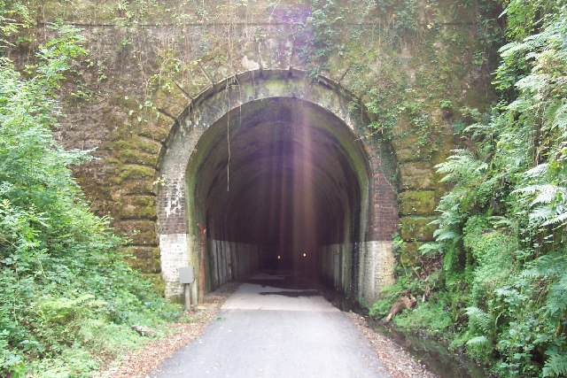 Shaugh Tunnel. on the Plym Valley Railway Path. This was once the Great Western Railway line from Lanceston and Tavistock to Plymouth.